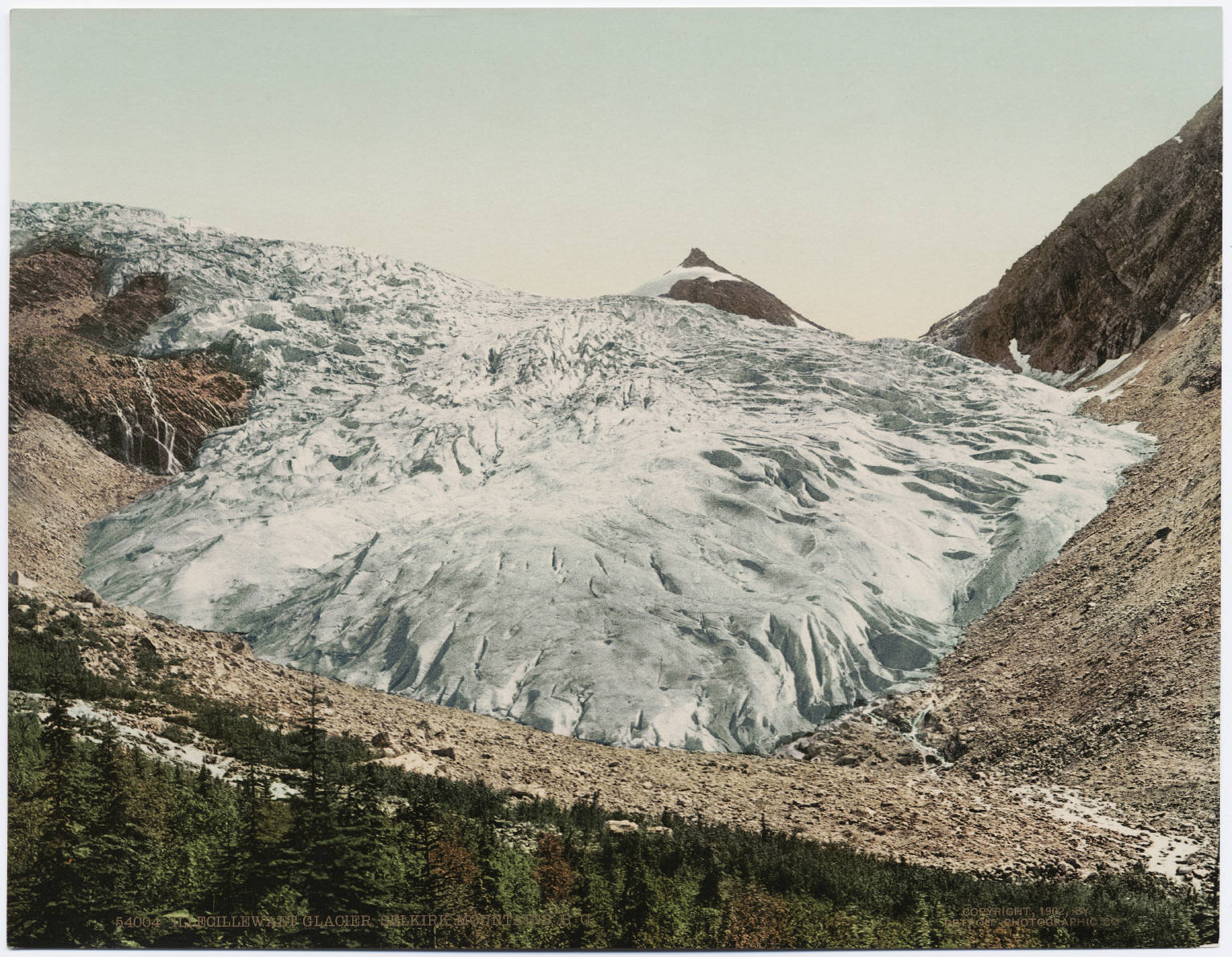 A photochrom postcard published by the Detroit Photographic Company.